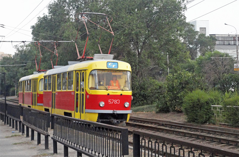 Tatra T3 couple in Volgograd